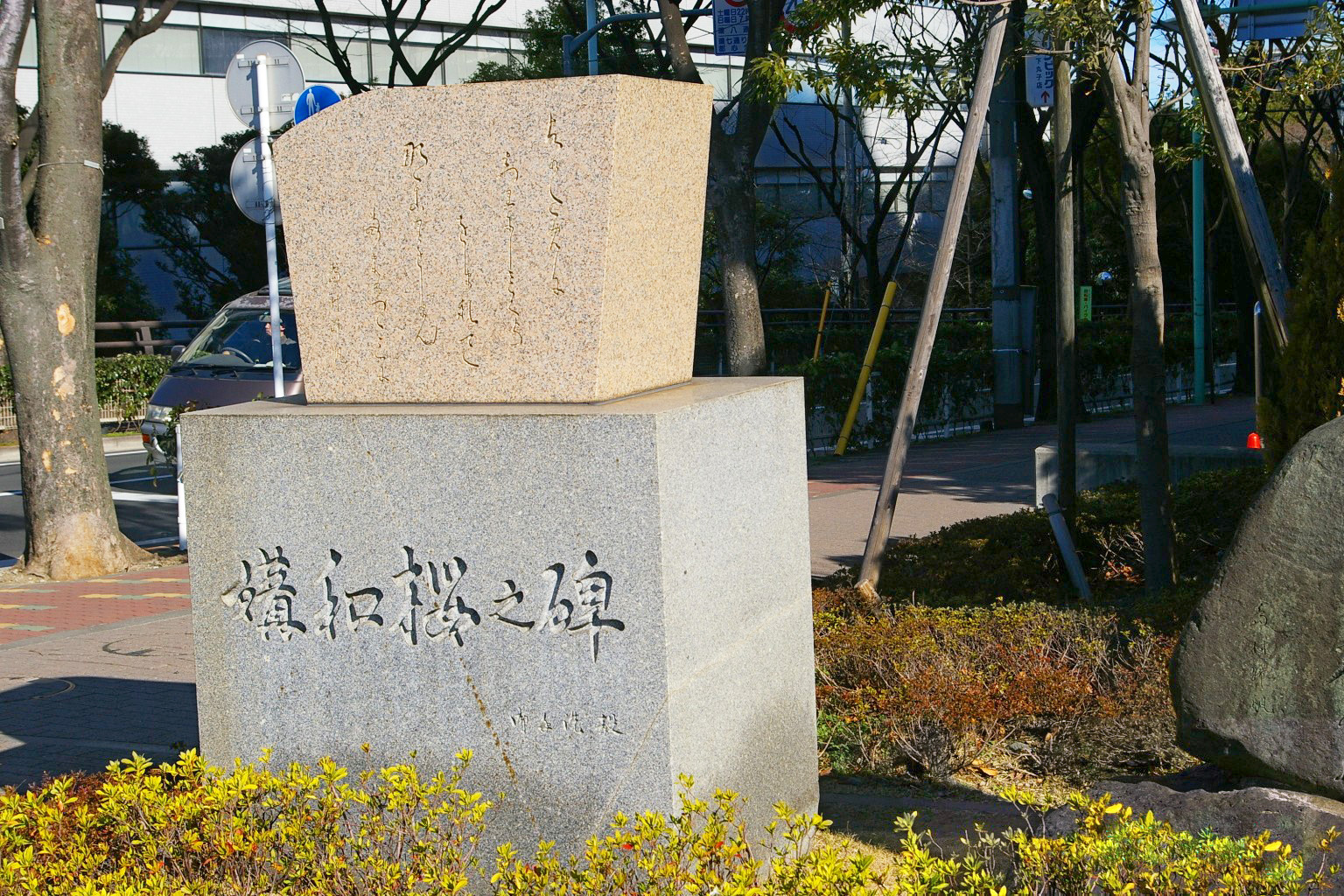 Memorial of Treaty of San Francisco in the Shimo-maruko Ohta ward, Tokyo.